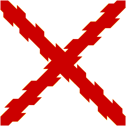 Cross of Burgundy (Template)